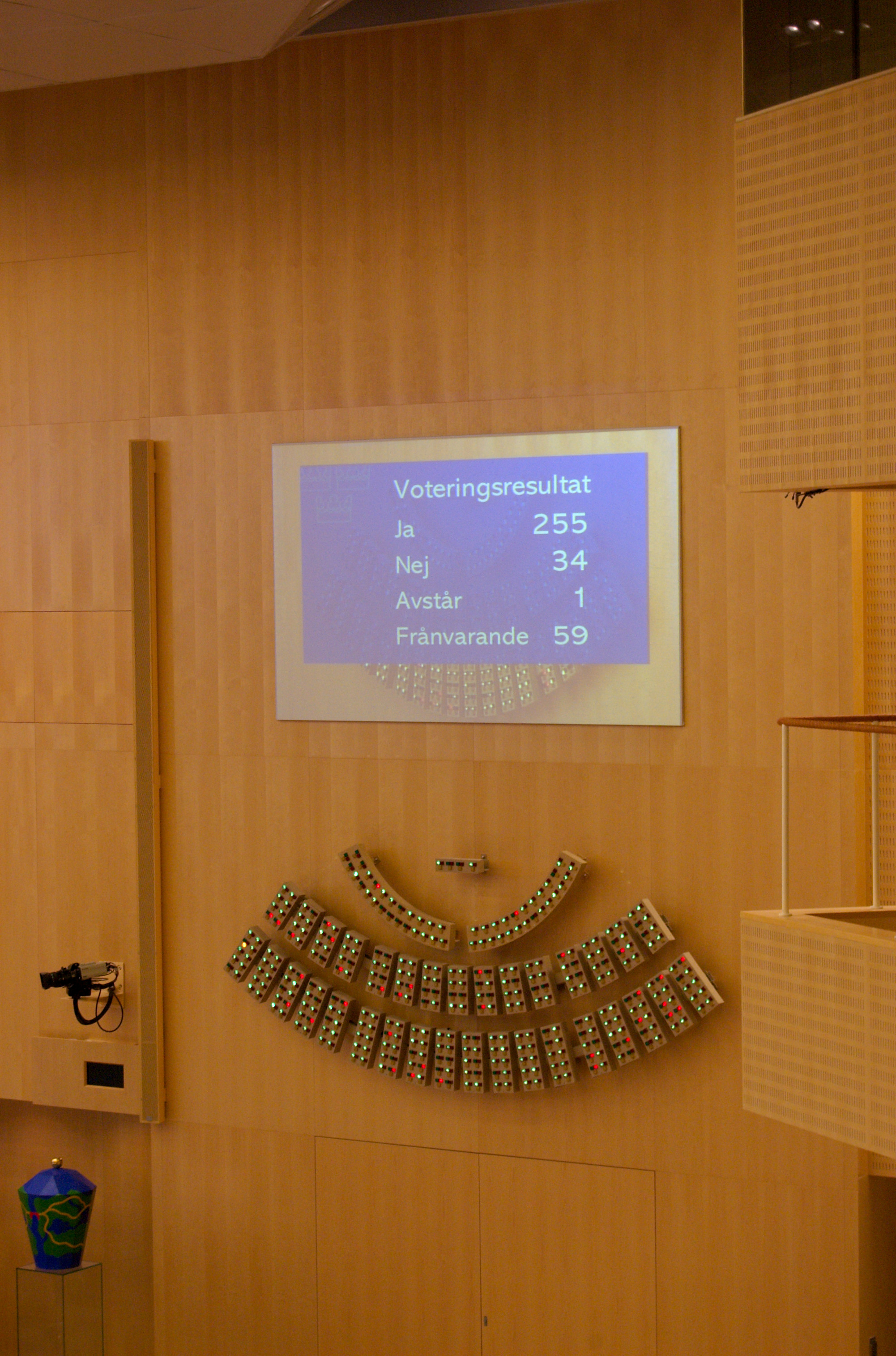 Swedish Parliament, voting for the Ipred law